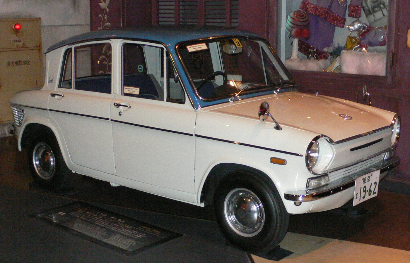 Mazda_Carol(1962) photographed in MEGAWEB.